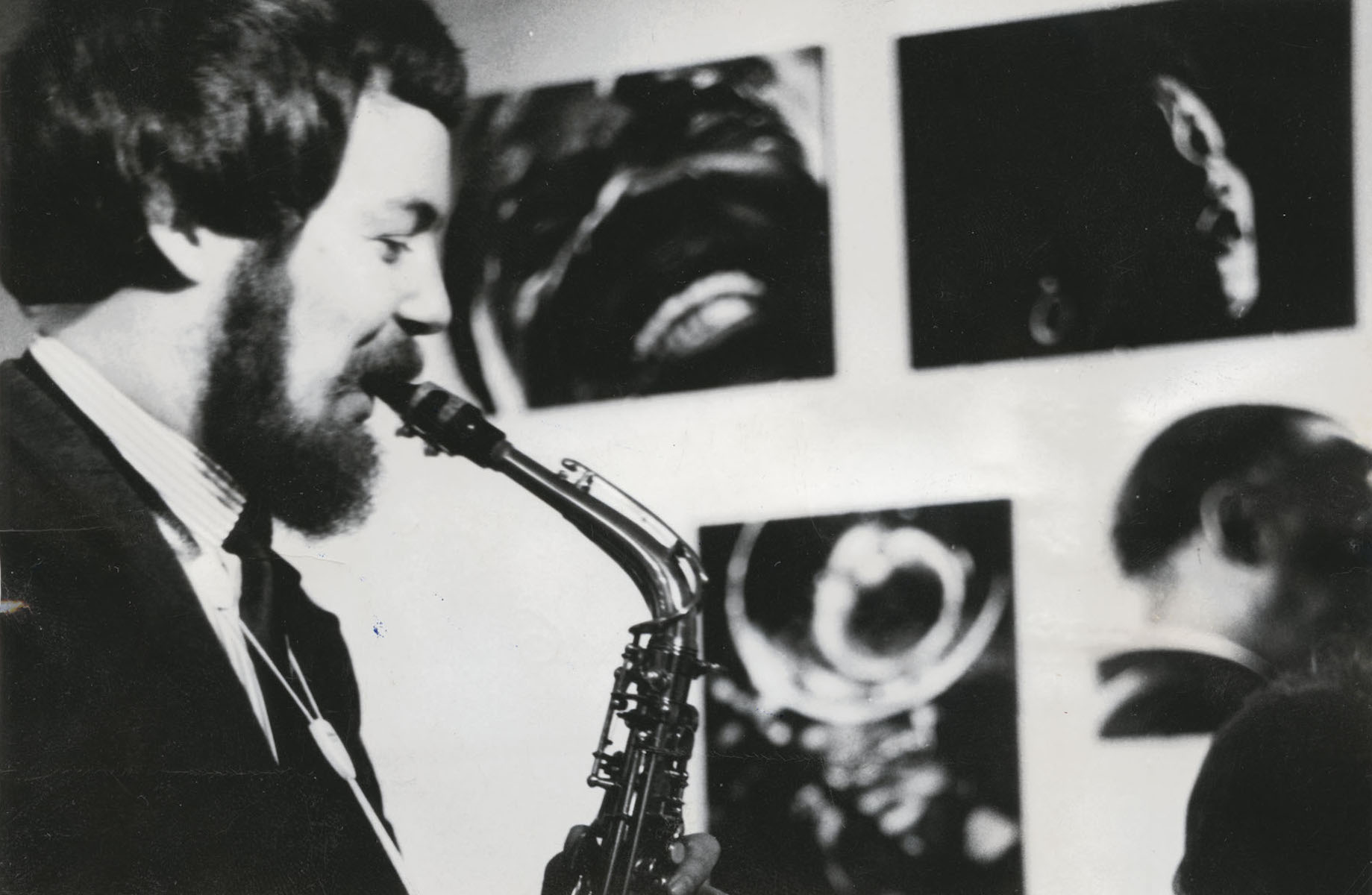 Photograph of the Finnish saxophone player Pekka Pöyry (1939–1980) performing at E-Club, Hakaniemi, Helsinki. It was the opening of the first “Jazz Days”.